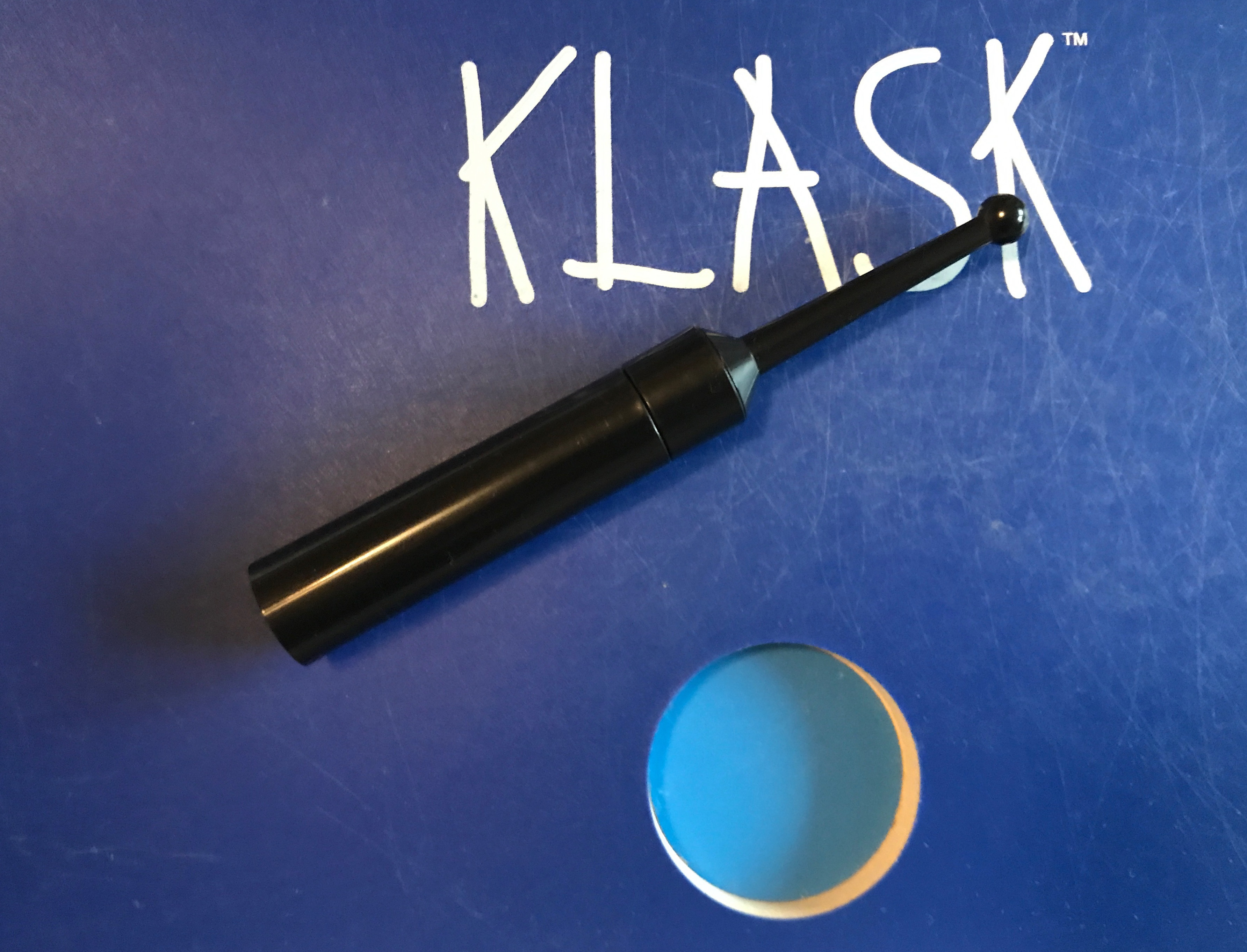 KLASK - danish physical-skill game (Game Factory)